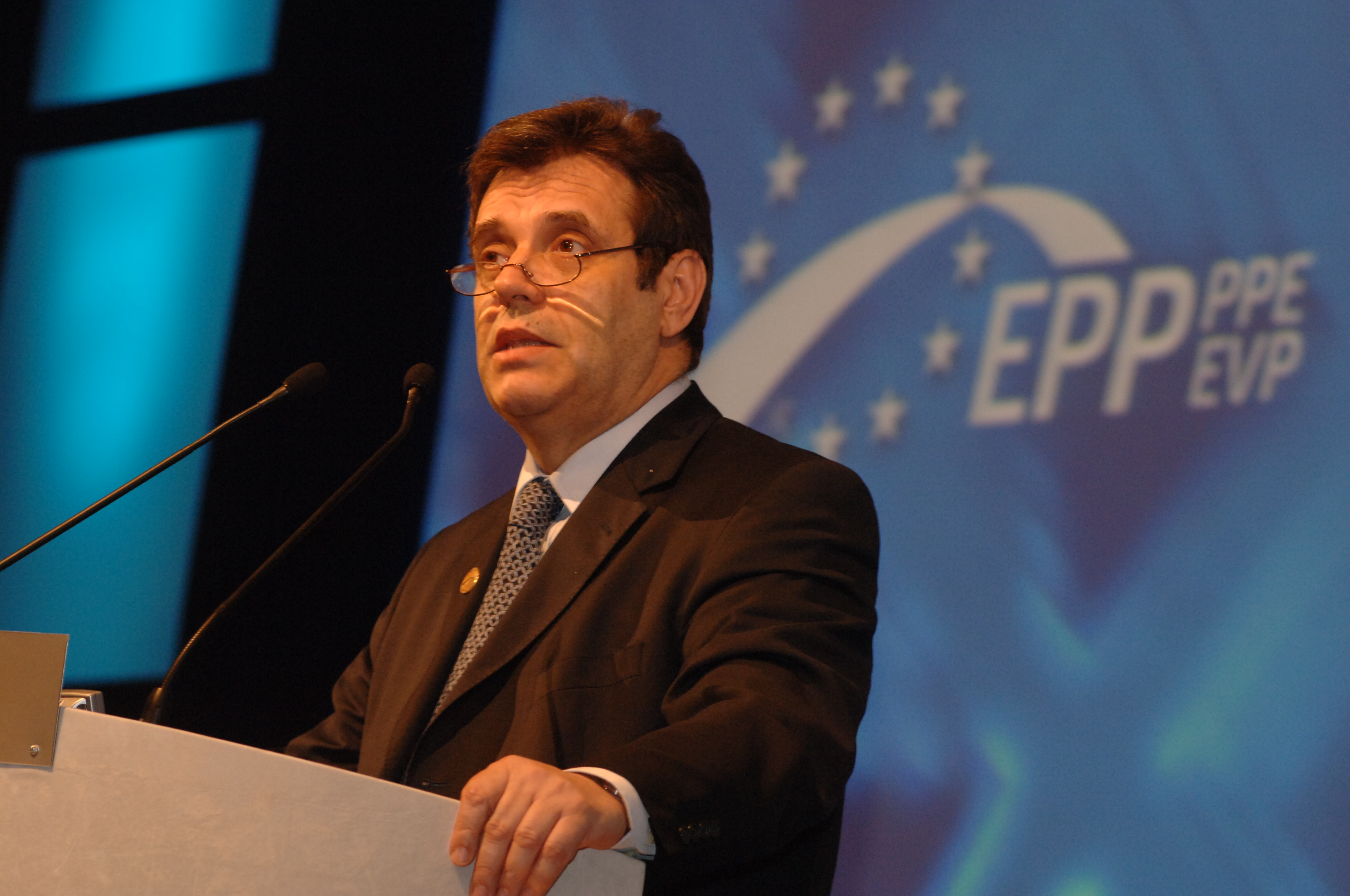 EPP Congress Rome 2006